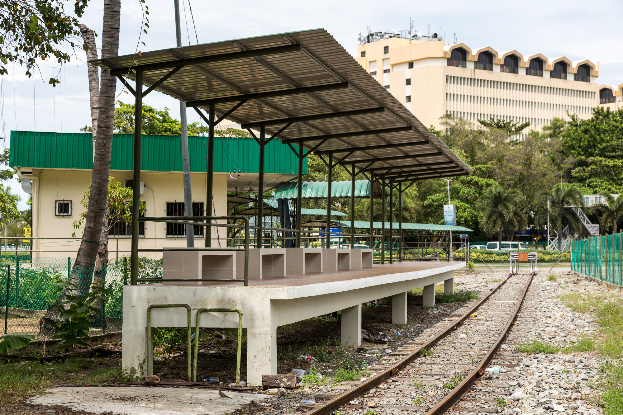 Sabah State Railway: Stesen Sekretariat after 2012 refurbishment